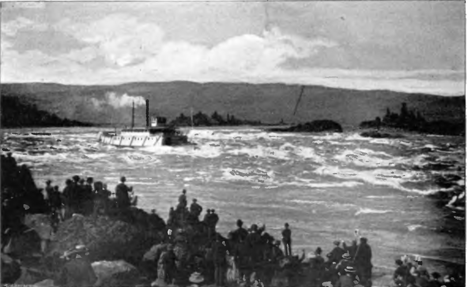 photograph of sternwheeler Hassalo running the Cascades Rapids, May 26, 1881